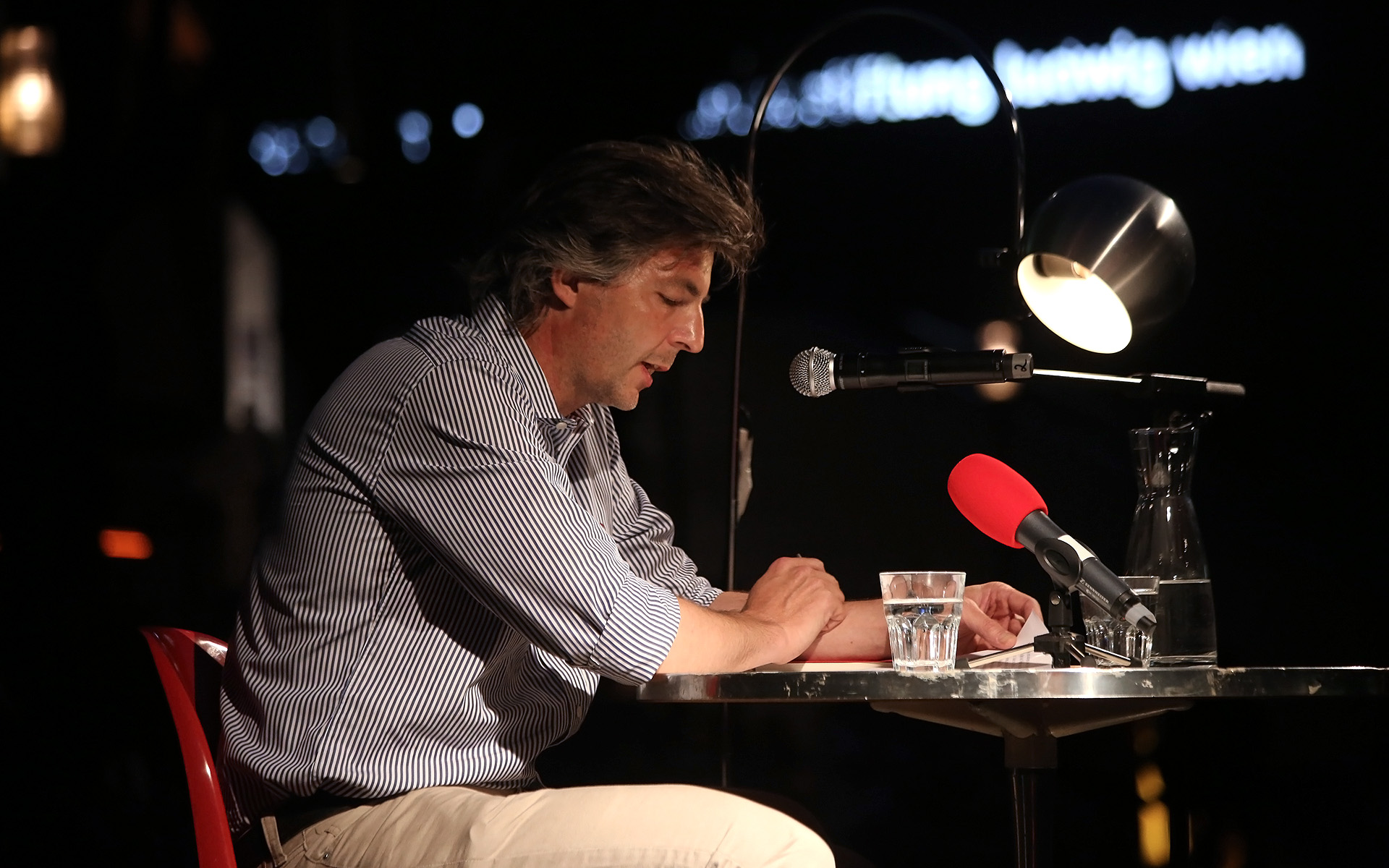 Stefan Gmünder, o-töne 2013 at Museumsquartier in Vienna.